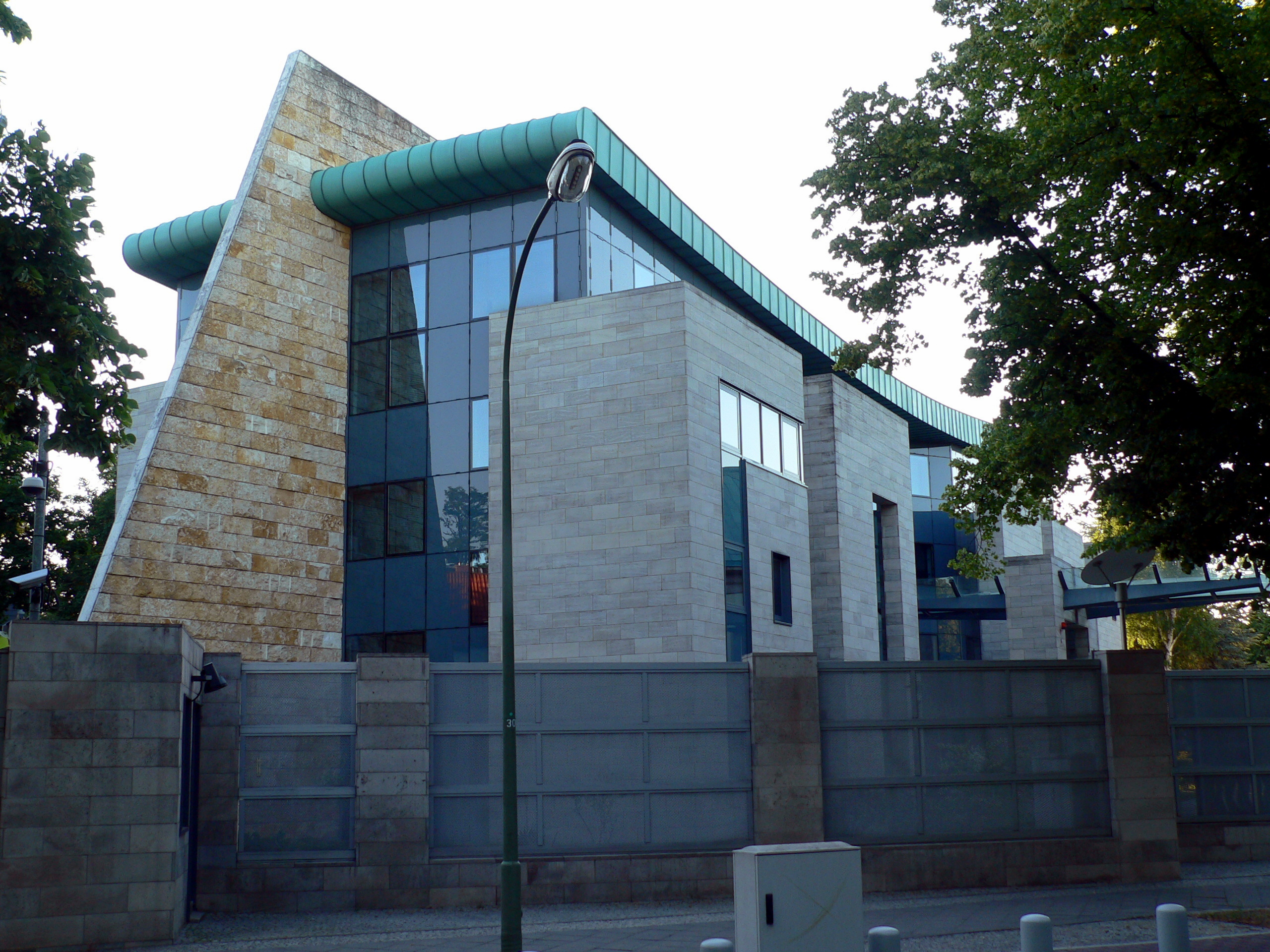 Berlin-Schmargendorf, Embassy of Israel at Auguste-Viktoria-Straße by Orit Willenberg-Giladi